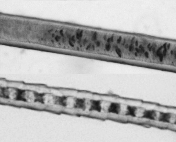 Dog hair (top) cat hair (bottom) under a microscope